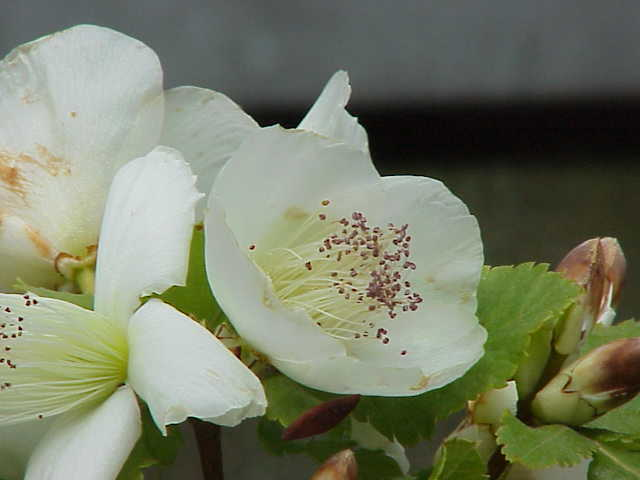 Species: Eucryphia glutinosa Family: Eucryphiaceae Image No. 2